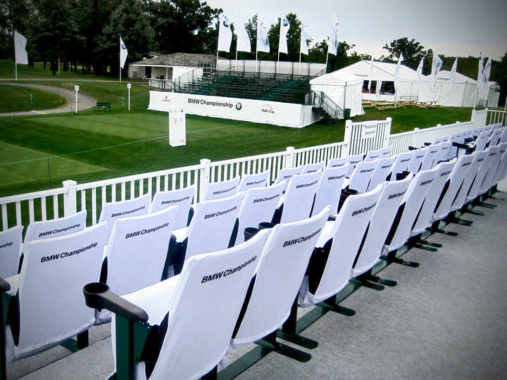 Seat Covers at BMW Championship